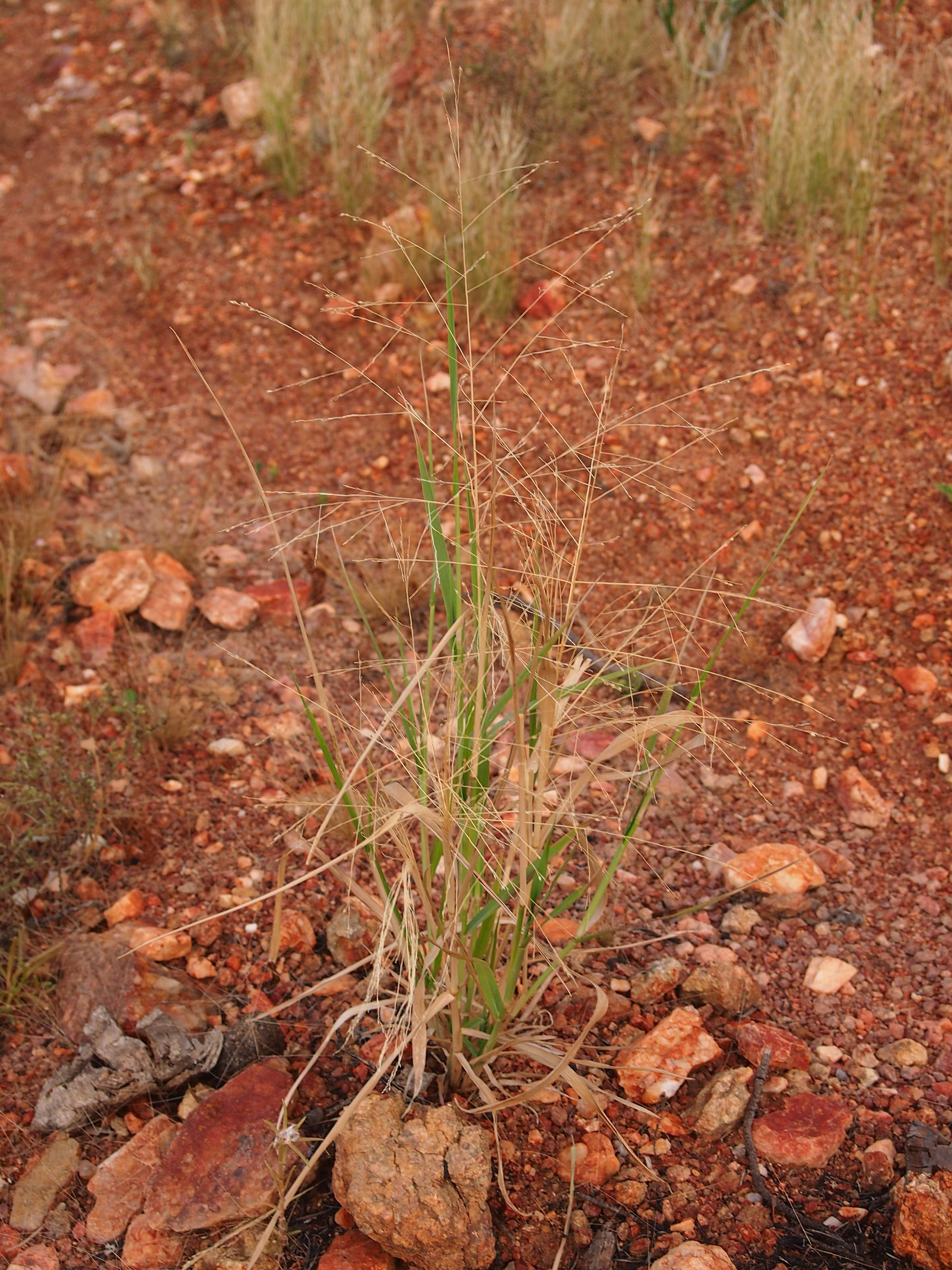 Panicum decompositum